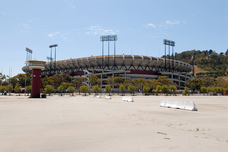 Monster Park. Photo taken on 23 July 2006 by Paul R. Kucher IV 03:24, 16 August 2006 . . YF12s . . 800×536 (89,056 bytes)